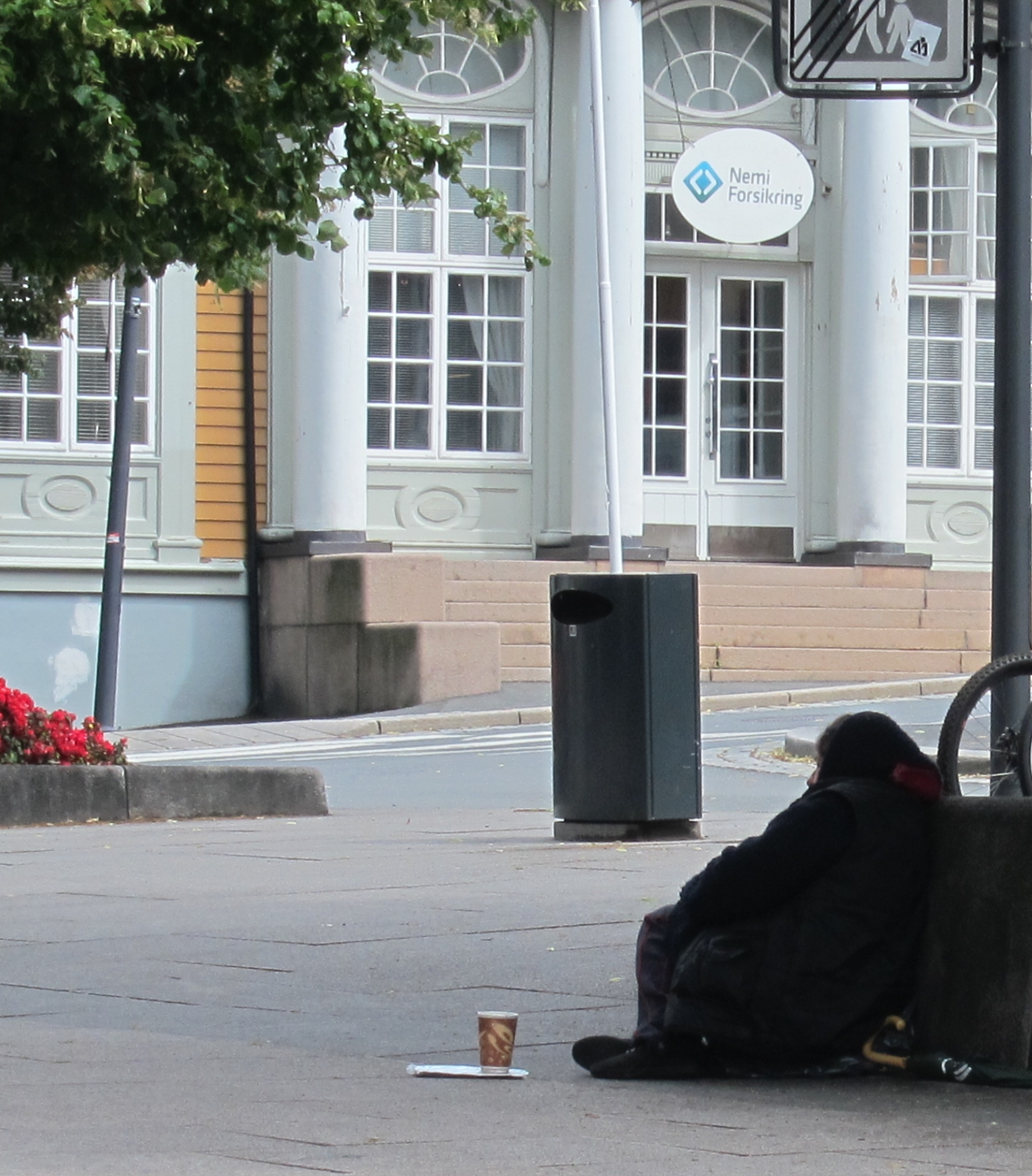 A female beggar in Moss, Norway, the woman was a foreign, probably from Romania